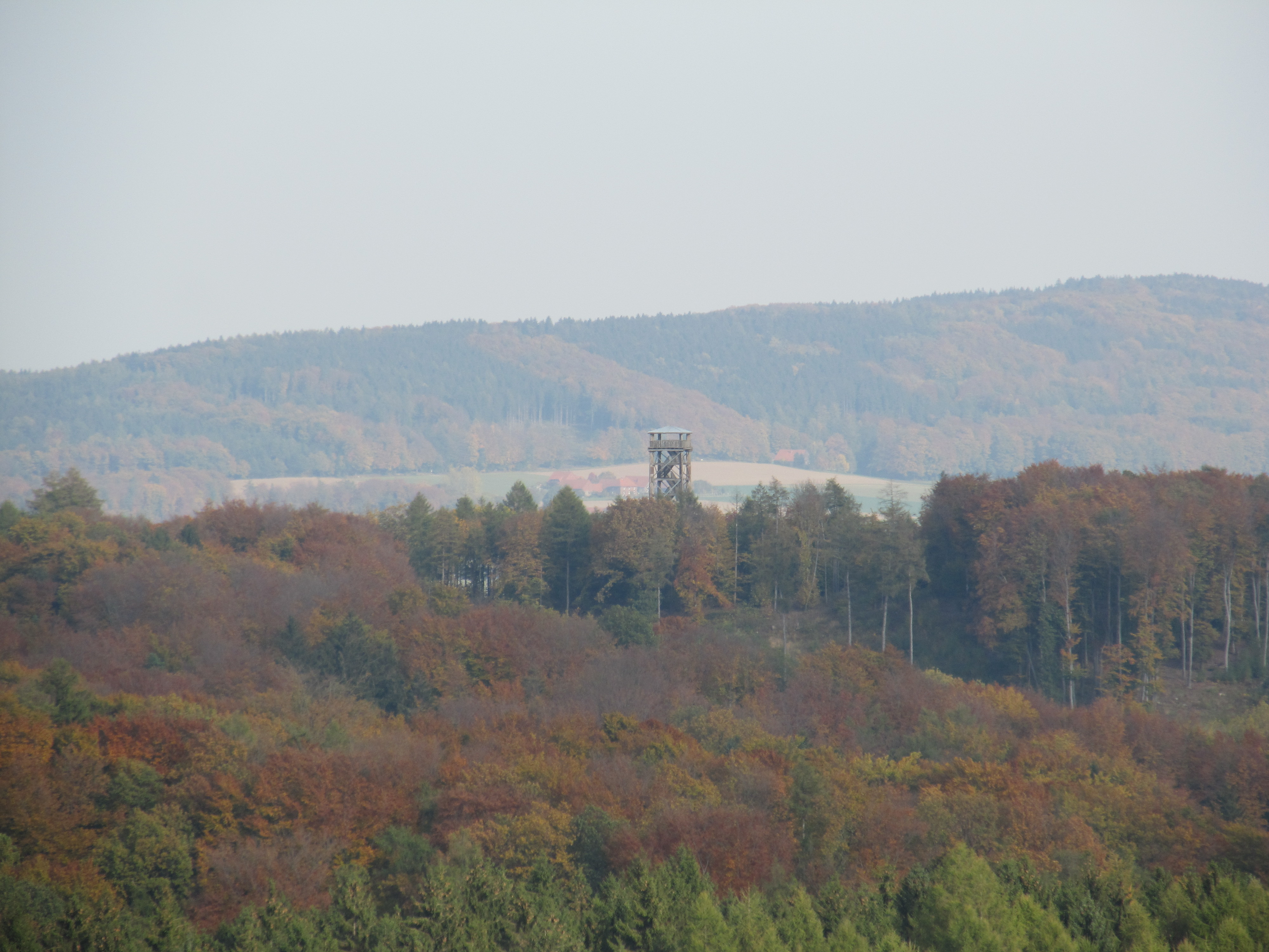 Melle Hills: look-out Friedenshöhe